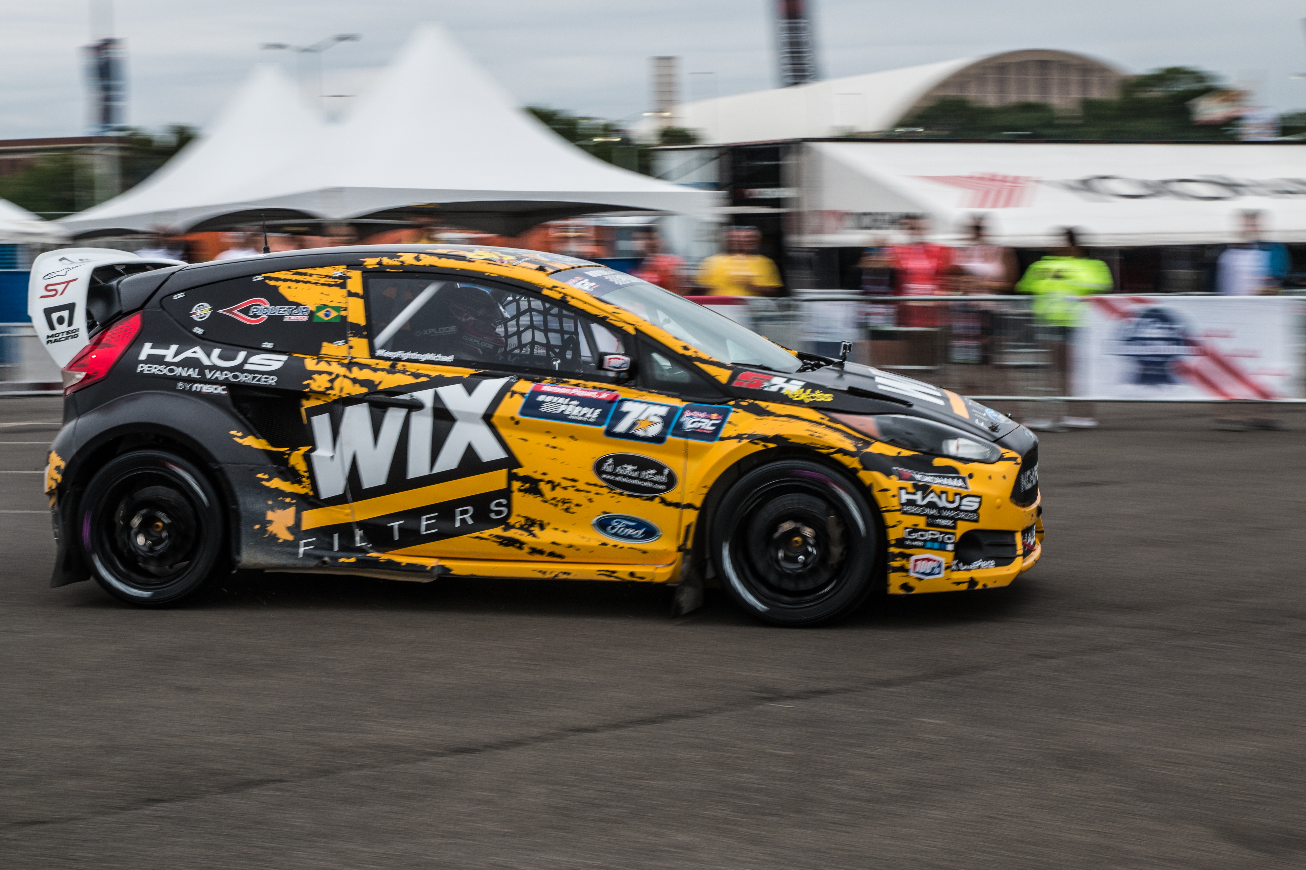 Nelson Piquet, Jr. in his Ford Fiesta MK6 Supercar. Round 3 of the 2014 Global RallyCross Championship at RFK Stadium, Washington D.C.